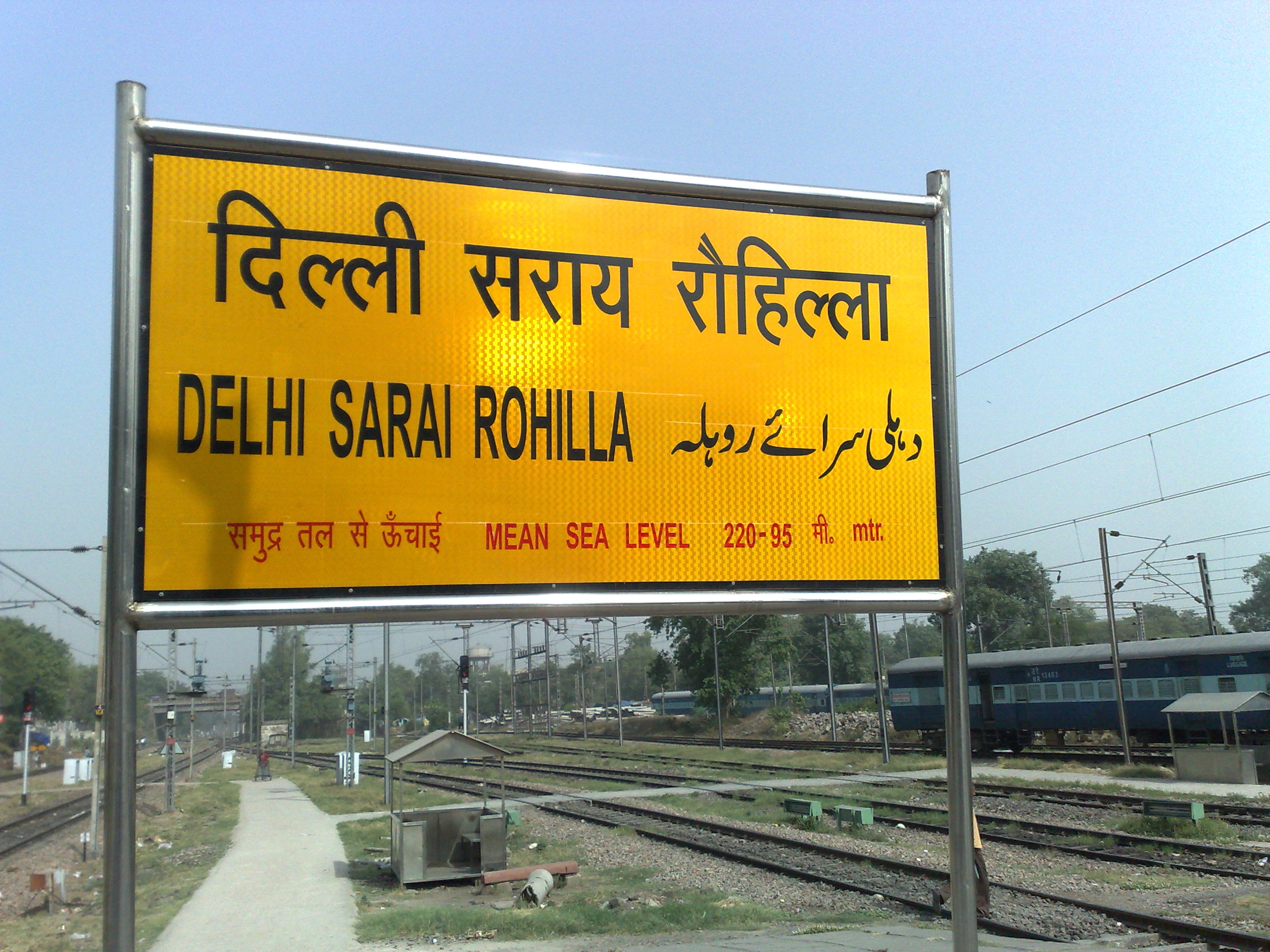 Delhi Sarai Rohilla - stationboard